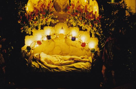 "Sepulcrum Domini" at the church in Traunwalchen, Upper Bavaria (1990)